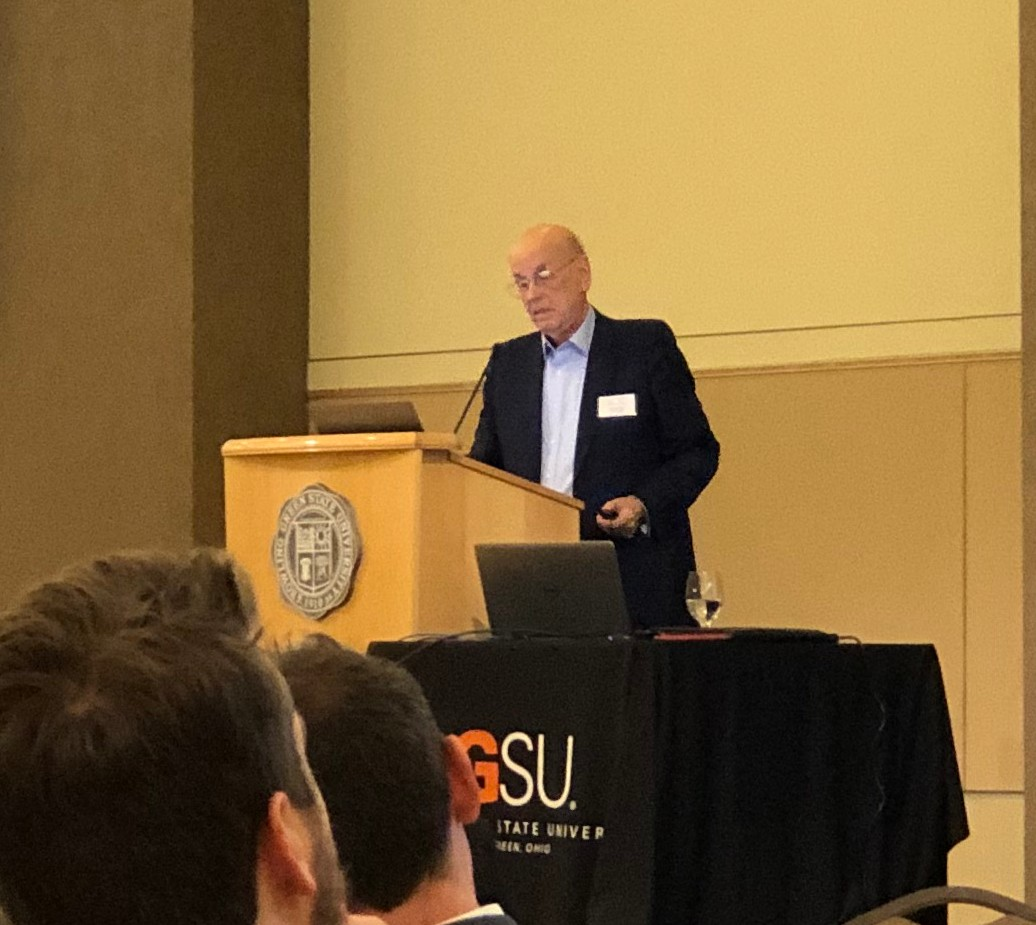 David Fulton giving a speech at BGSU "Tales of an Old Fox"